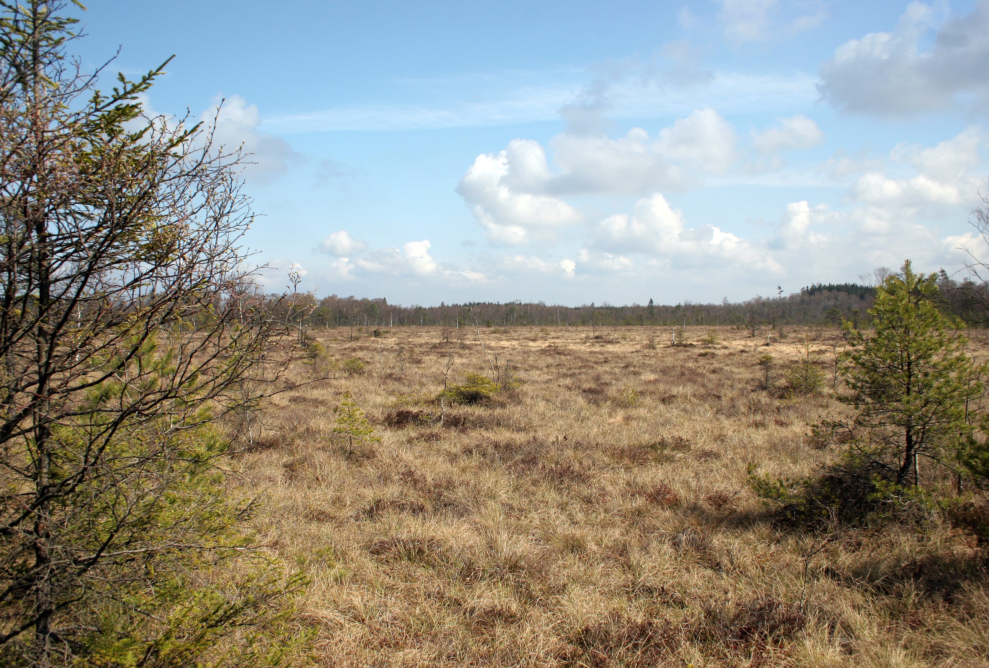 Traneröds mosse, a bog in Svalöv municipality, Sweden